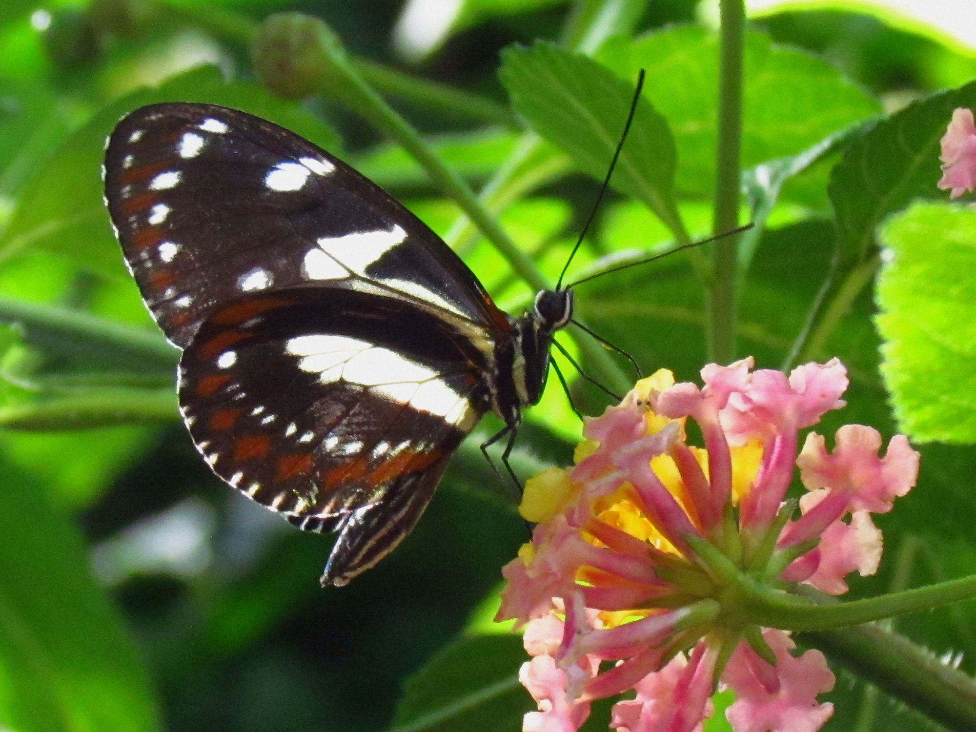 False Zebra Longwing (Heliconius atthis)